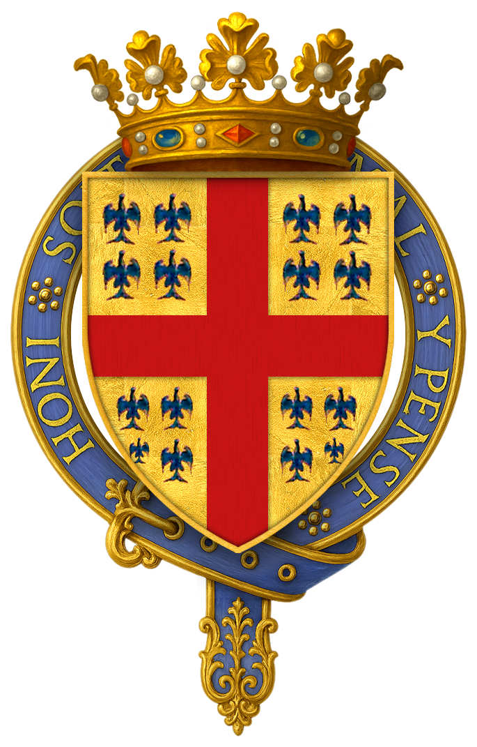 Coat of arms of Francois, Duc de Montmorency, KG